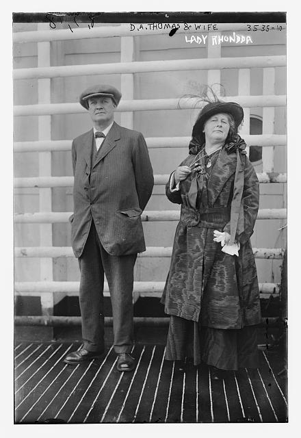 Viscount Rhondda, Lady Rhondda, Wales, Liberal, Suffragette